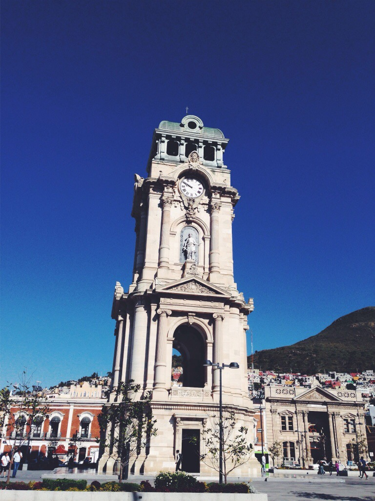 Pachuca